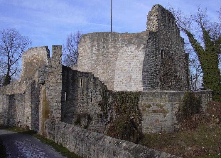 Ruin of Nippenburg near Schwieberdingen, Germany